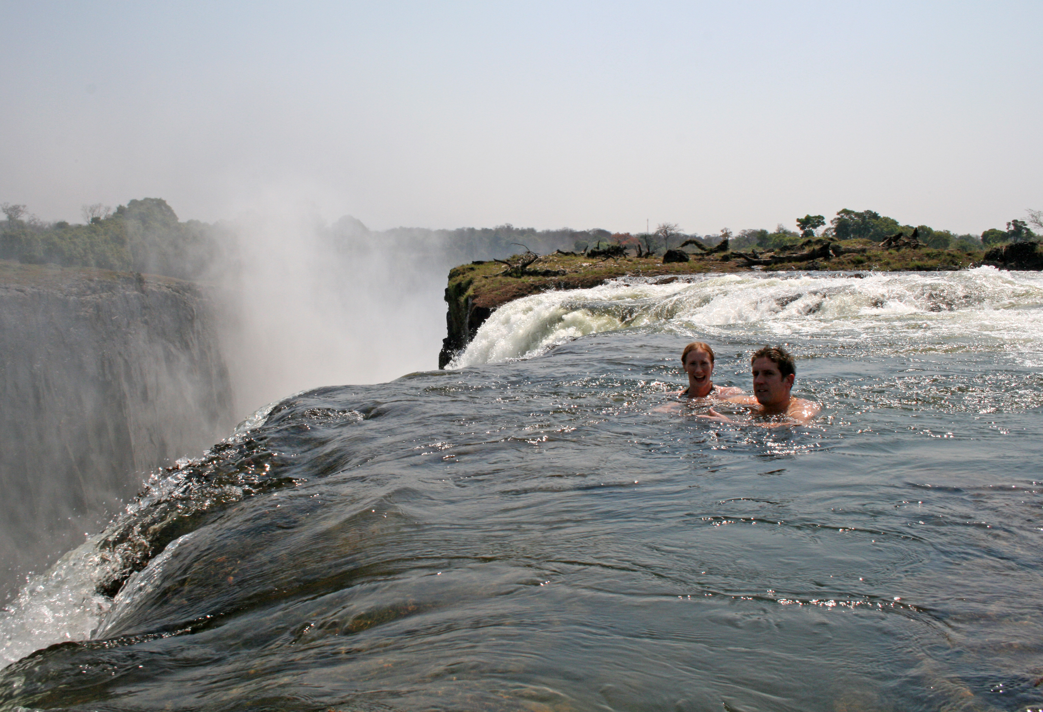 It is possible to swim at the edge of the falls in a naturally formed safe pool, accessed via Livingstone Island.